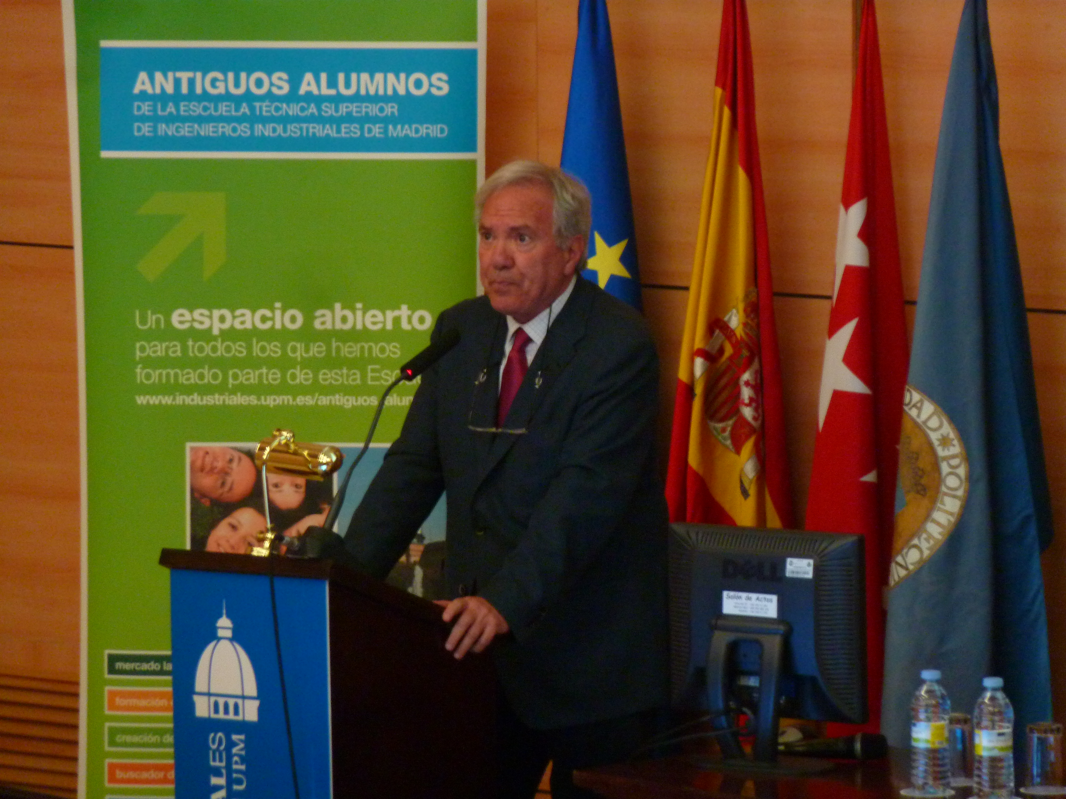 Spanish politician